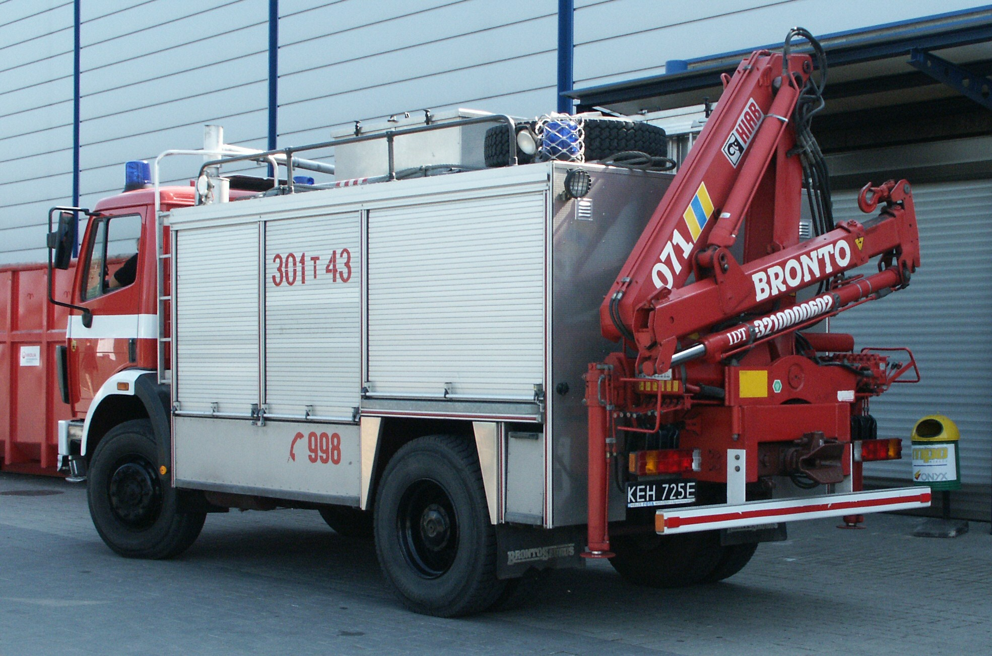 Mercedes-Benz fire engine of Kielce fire brigade, Poland